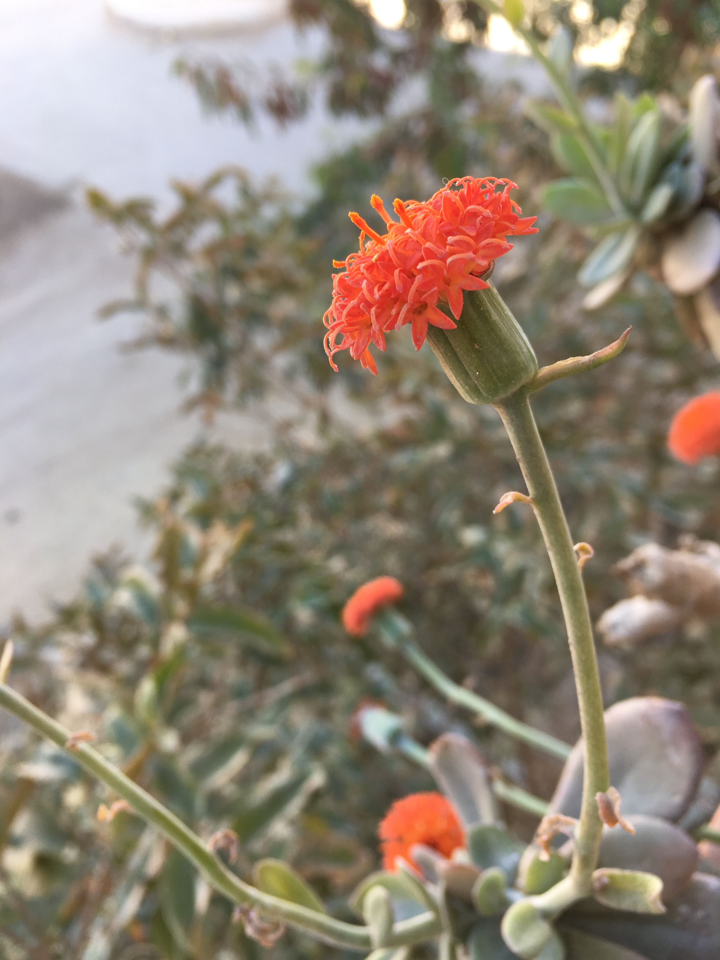 Senecio sempervivu At Obour by Hatem Moushir